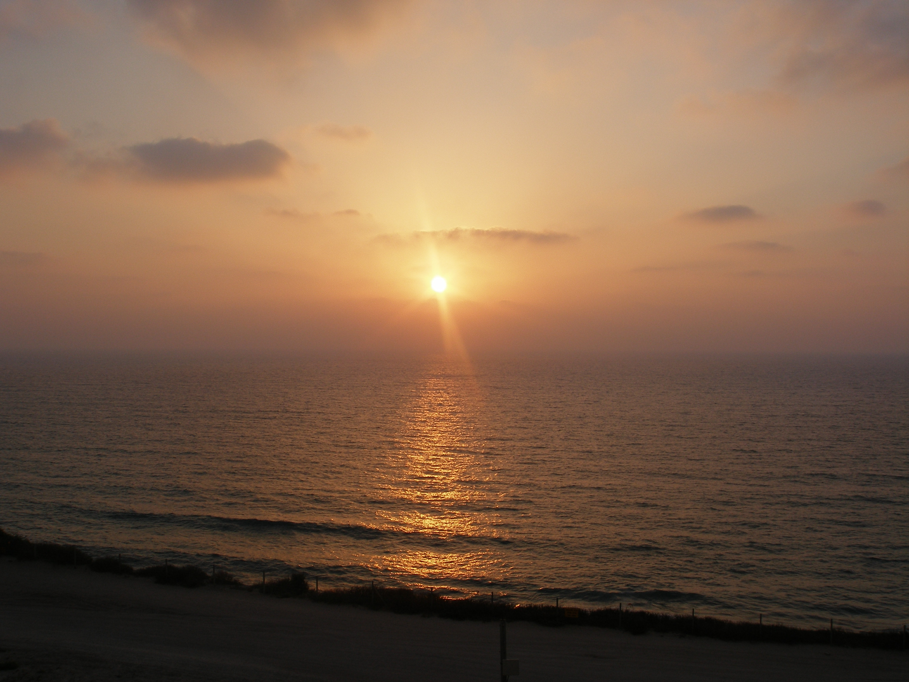 sunset; Ashkelon, southern israel.